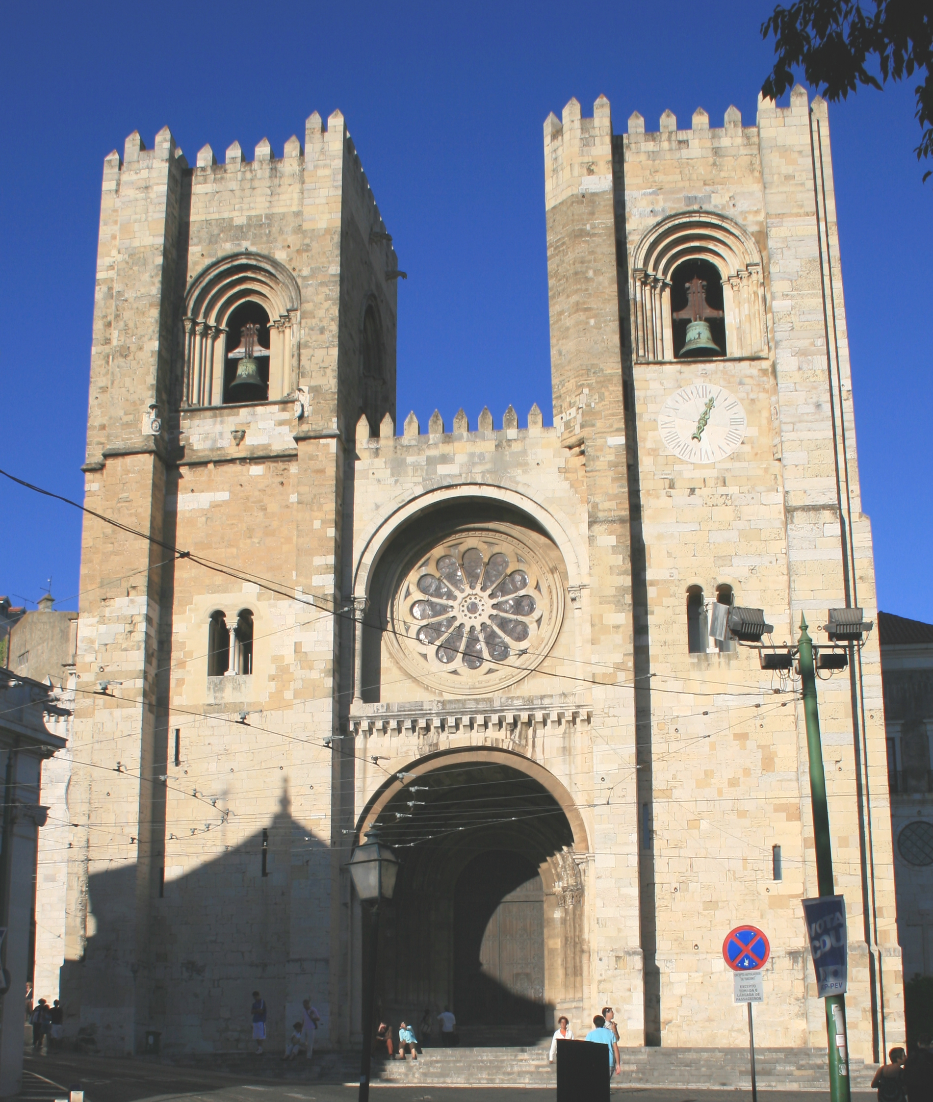 Sé, Cathedral of Lisbon, Portugal